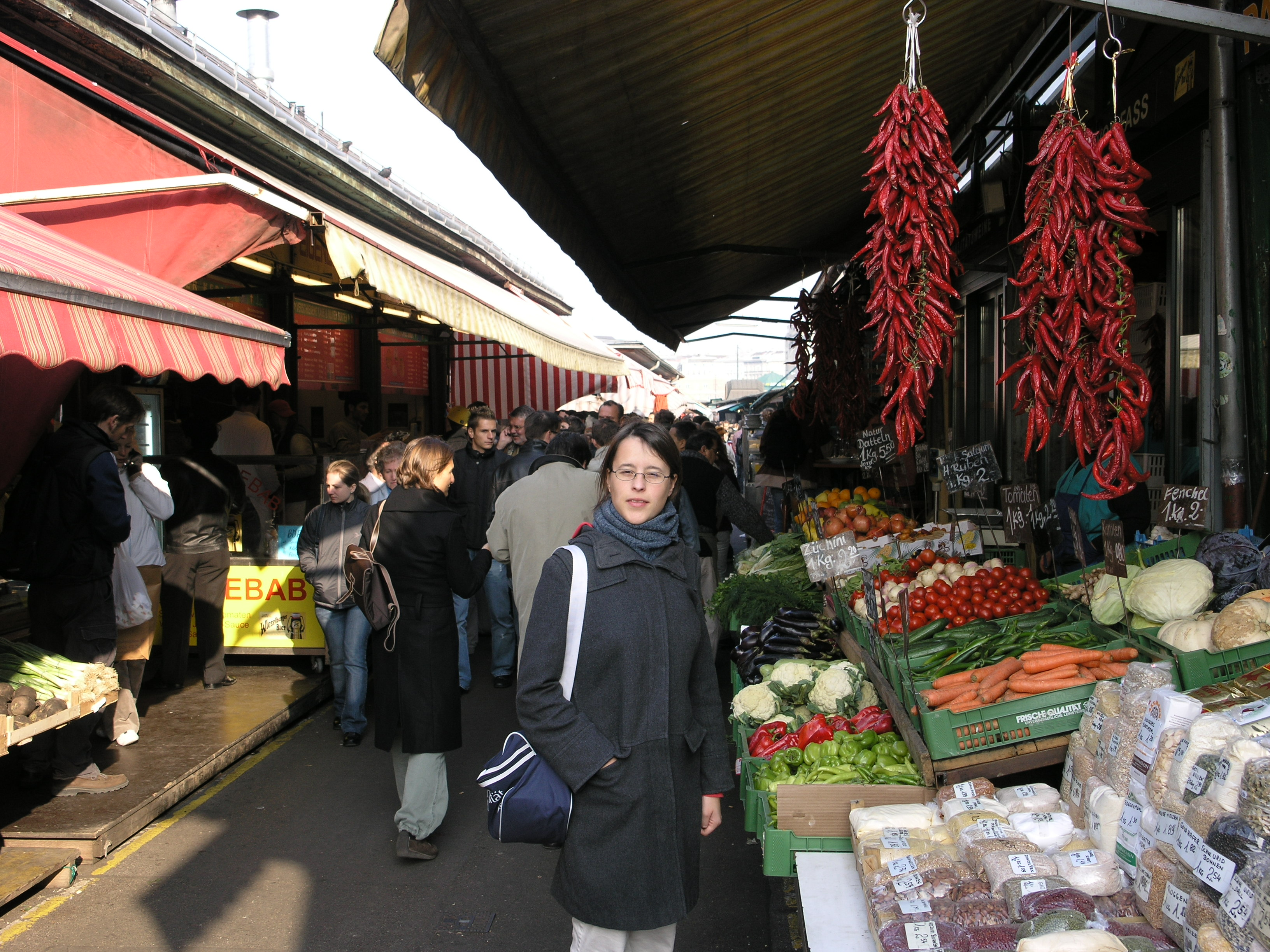 "Naschmarkt" in Vienna